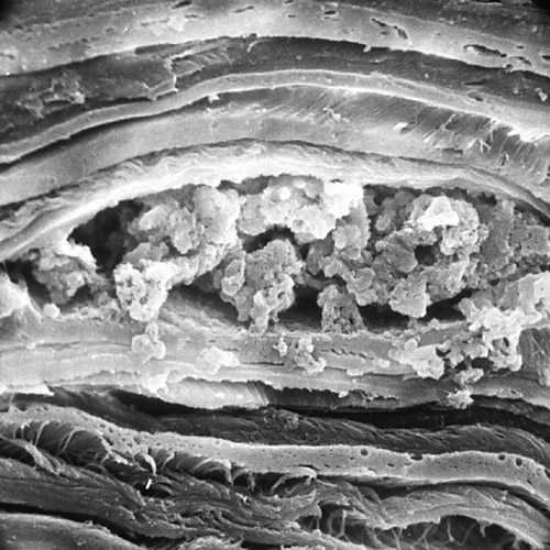 Macular corneal dystrophy. Scanning electron micrograph of a section through the corneal stroma showing an accumulation of abnormal material between the collagen lamellae in the location of a keratocyte. Klintworth Orphanet Journal of Rare Diseases 2009 4:7